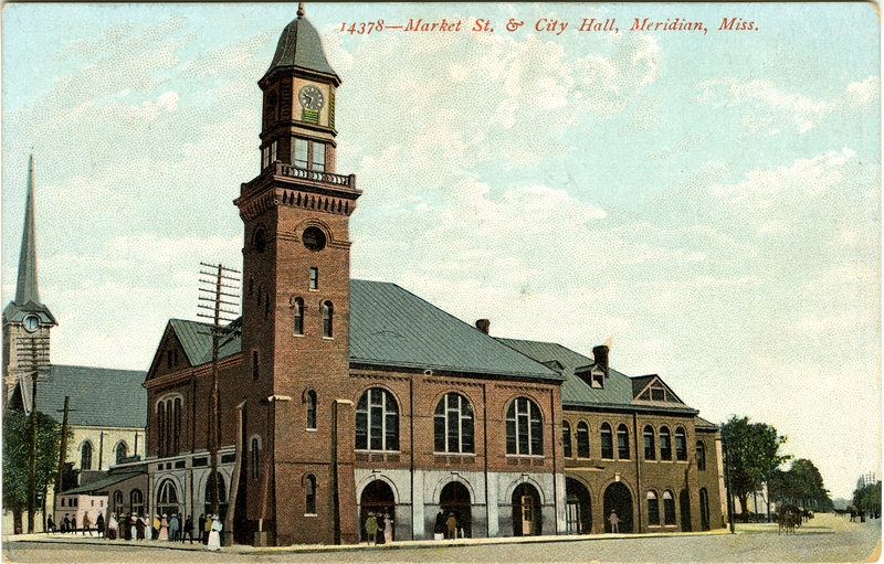 Postcard of the 1885 building designed by Gustav Torgenson out of which Meridian, Mississippi's government operated until the current city hall was built in 1915.